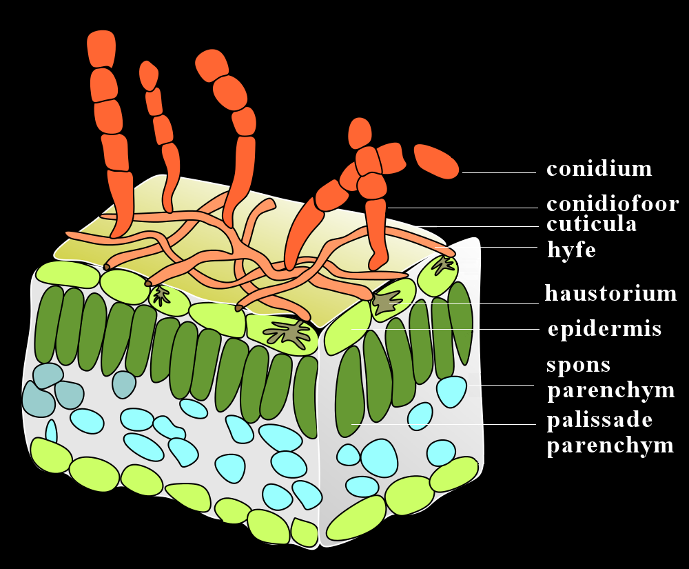 Erisyphe necator with Dutch txt-labels